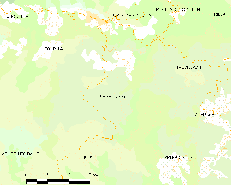 Map of French municipality